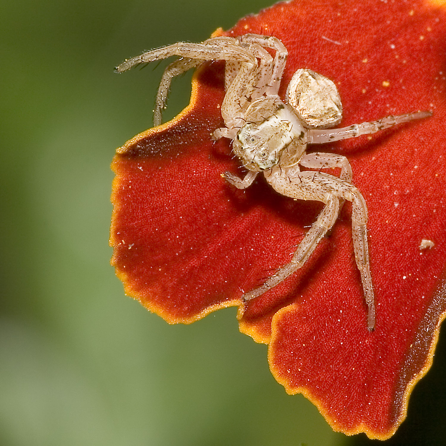 Crab spider Xysticus spec. in Dresden, Saxony, Germany